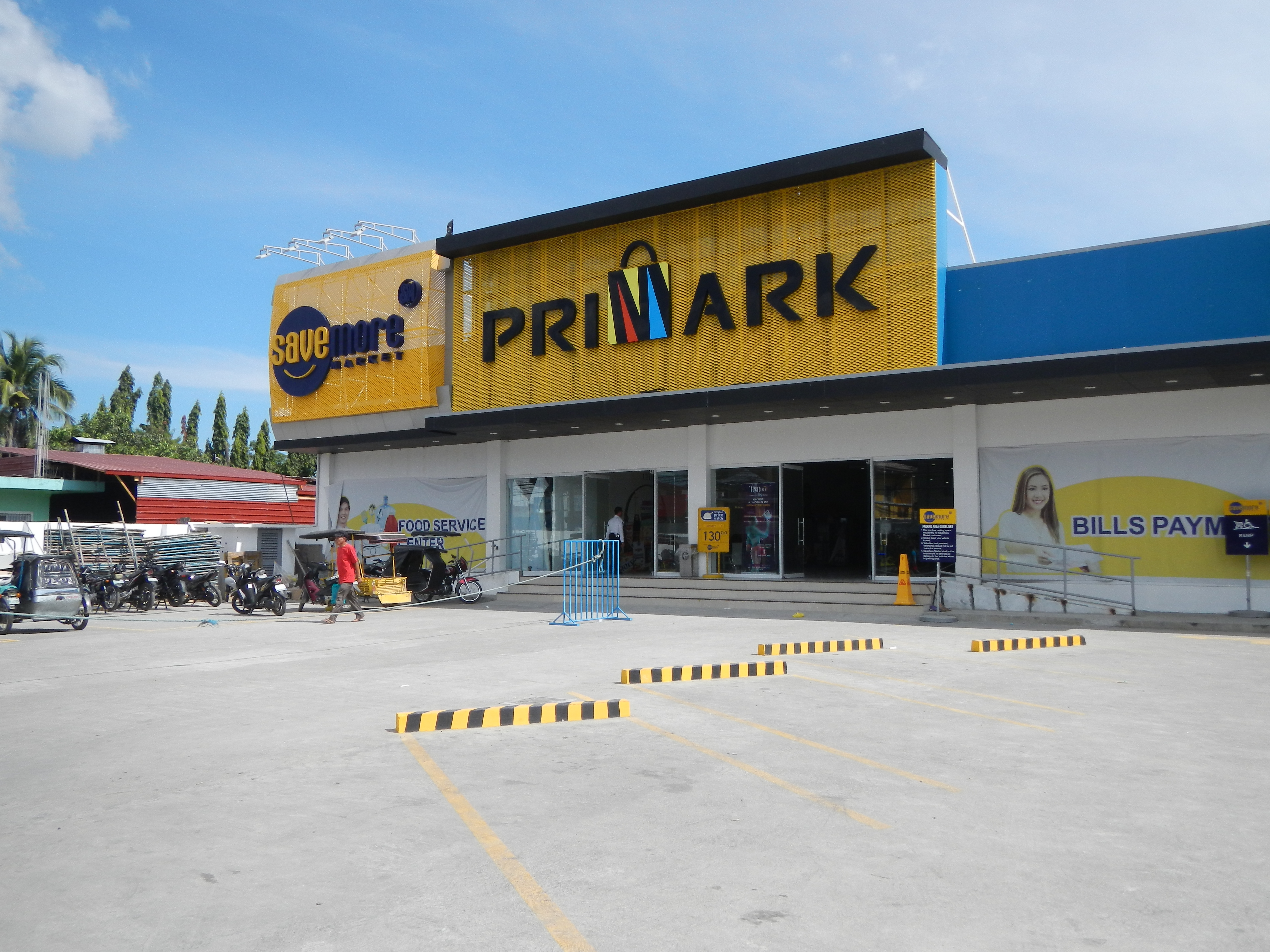 Barangay San Juan North (Poblacion), Cabiao, Nueva Ecija (Barangay Hall, Commercial buildings, Sourth Star Drug, Ministop, Kabyawan Inn and Restaurant, STM RxDrugMart, Minute Burger, Producers Bank, PrimarkSavemore Supermarket, Little Christ Jesus Academy, along the San Fernando-Gapan-Olongapo Road, Highway).